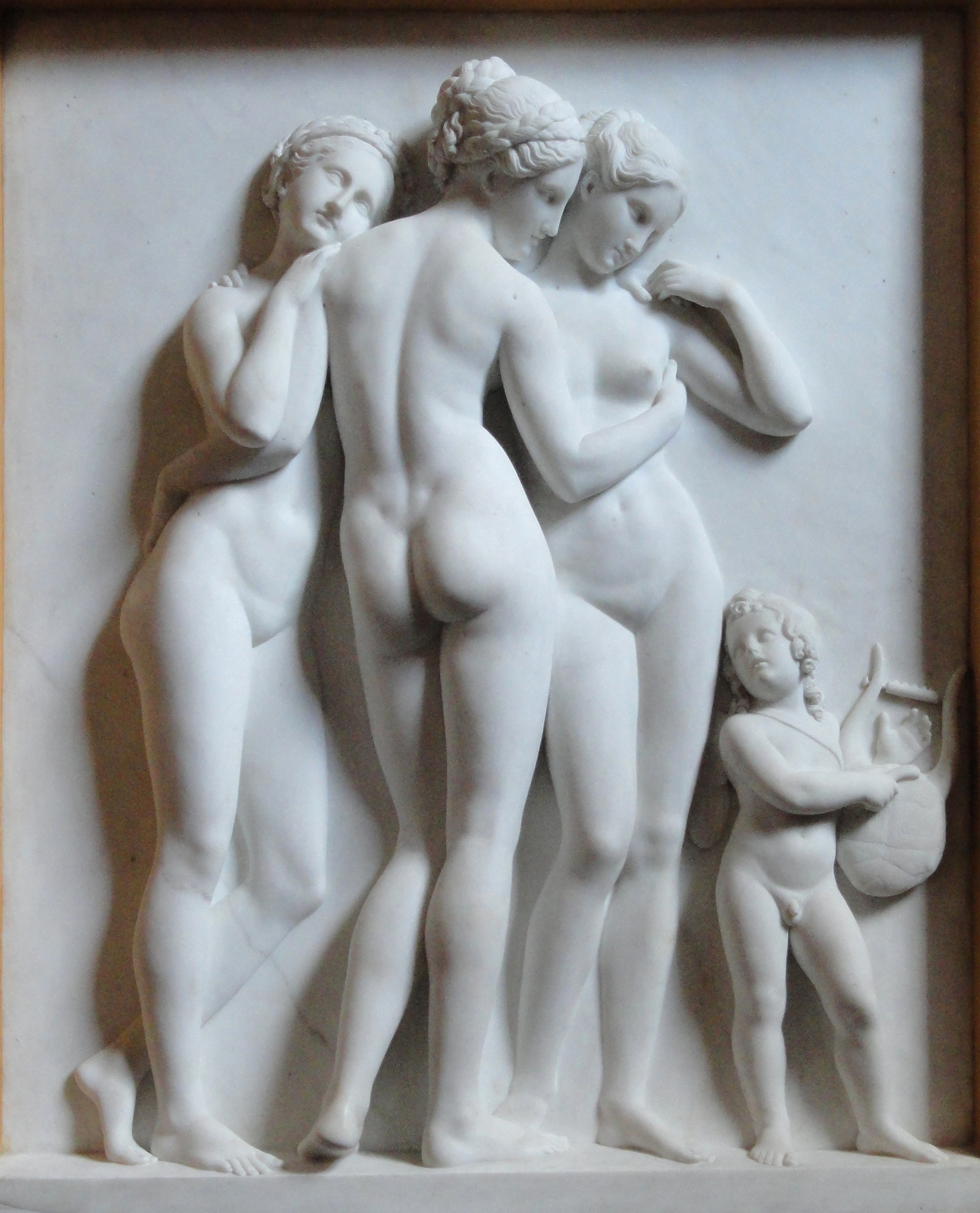 Sculpture in Thorvaldsens Museum, Copenhagen, Denmark. Sculptor: Bertel Thorvaldsen (c. 1770-1844). This artwork is now in the public domain because the artist died more than 70 years ago.